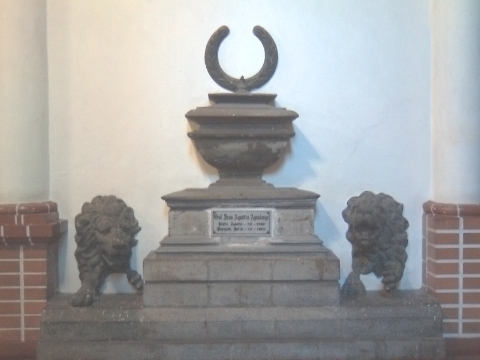 General Agualongo's crypt at St. John the Baptist Church, San Juan de Pasto.